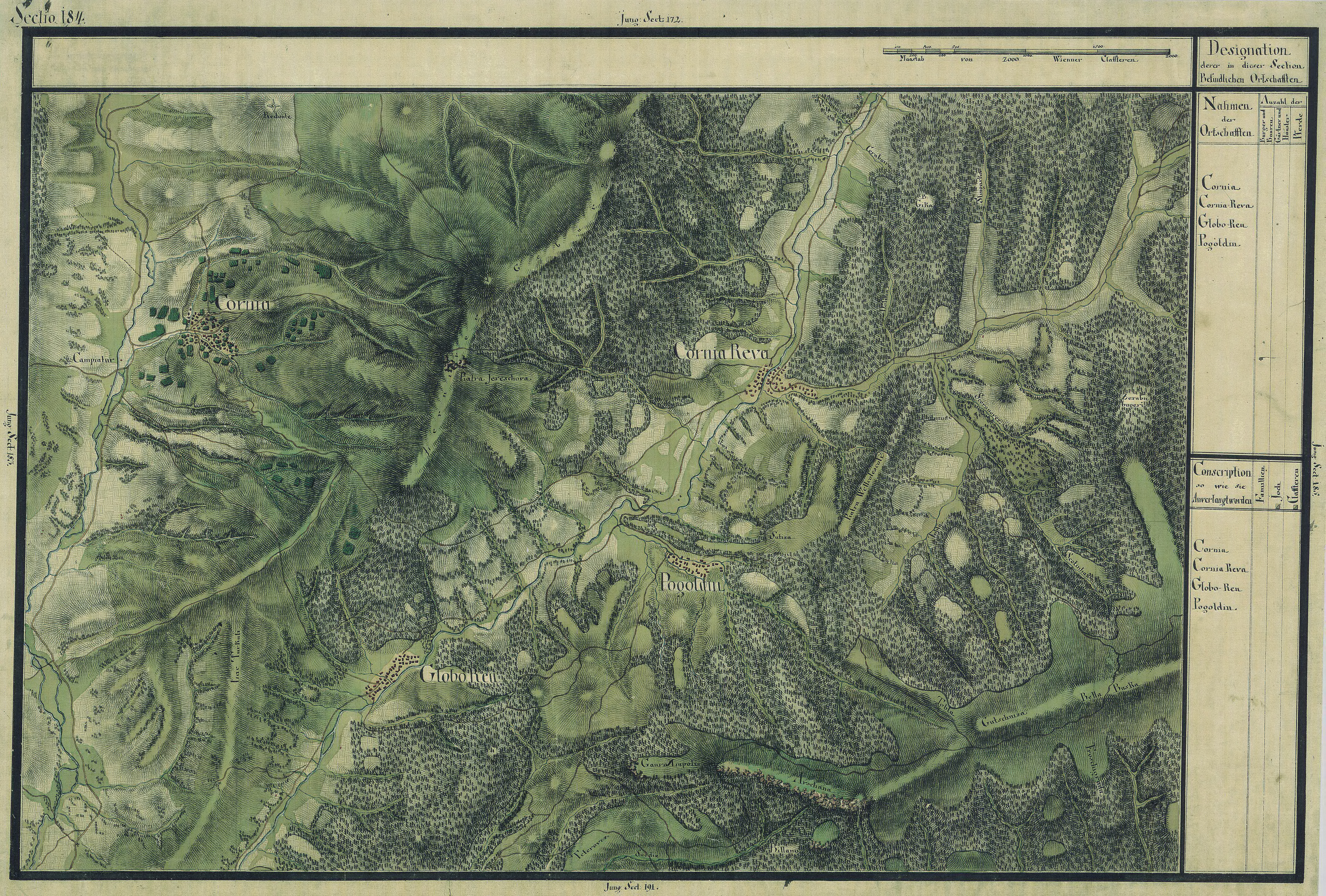 The Banat region in the cadastral maps: Josephinische Landesaufnahme, 1769-72. Josephinische Landaufnahme pg184